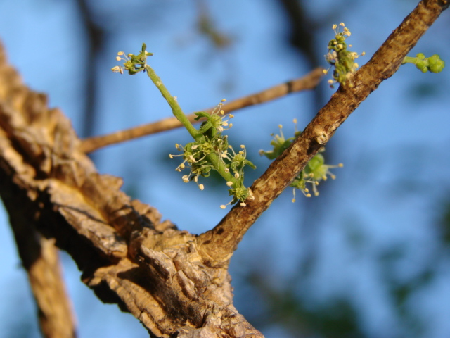 Flowers of Agonandra brasiliensis Miers ex Benth. & Hook.f. - OPILIACEAE